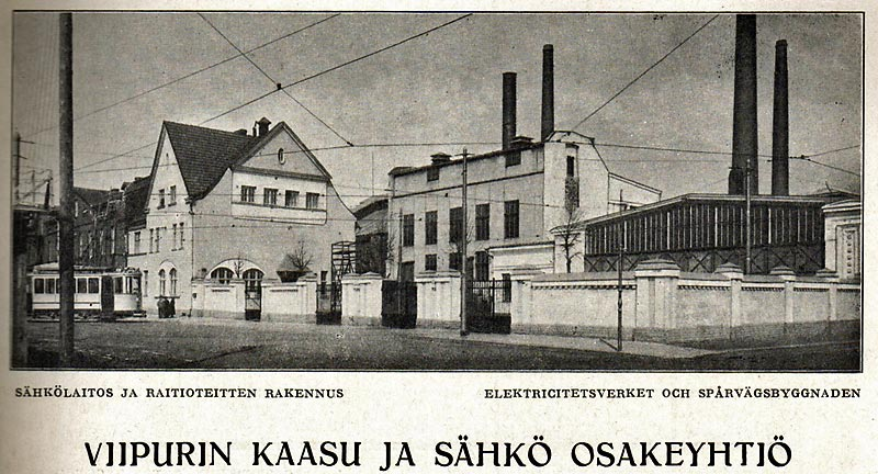 Vyborg power station and tram depot in 1924